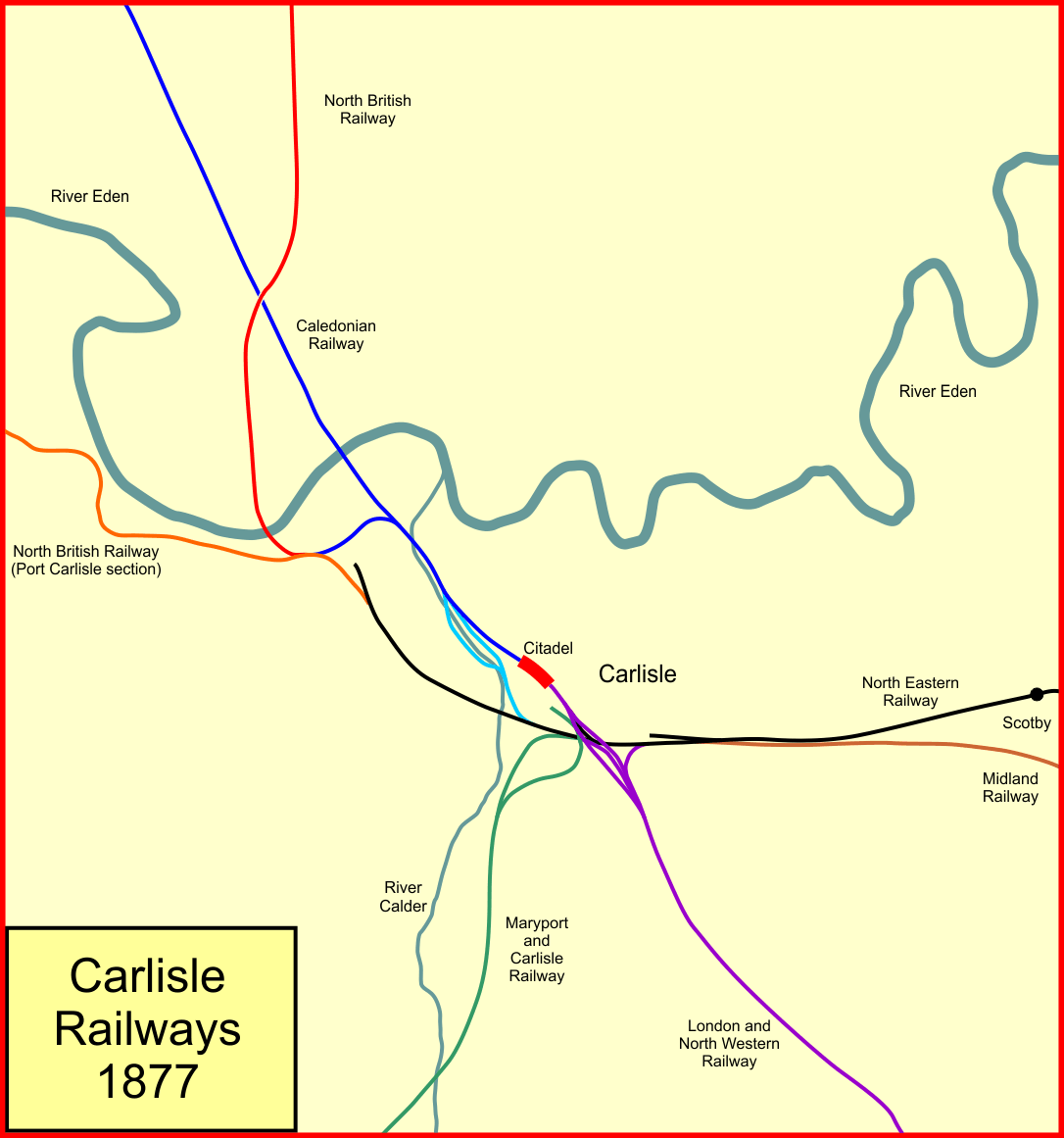 Railways of Carlisle, England, in 1877